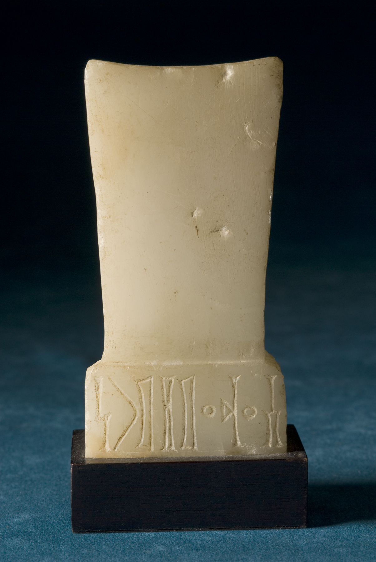 This small stela with an integral base has a concave top, which may allude to the shape of the crescent moon. The owner, Se'd-'m, is of the Meren clan.